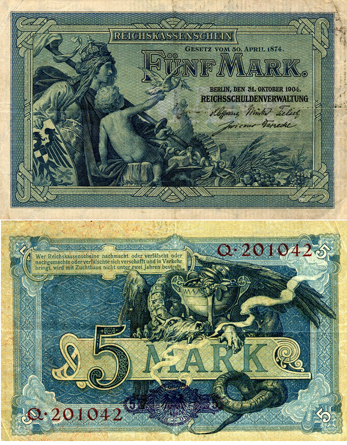 5 Mark